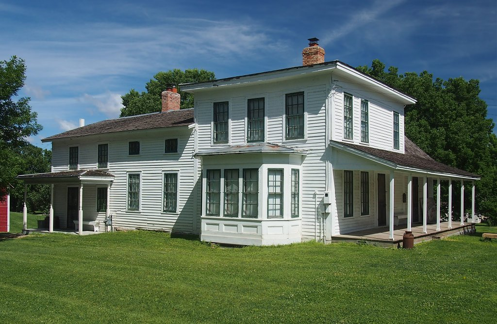 Hooper-Bowler-Hillstrom House, Court Square Park, Belle Plaine, Minnesota, USA. Viewed from the southeast.